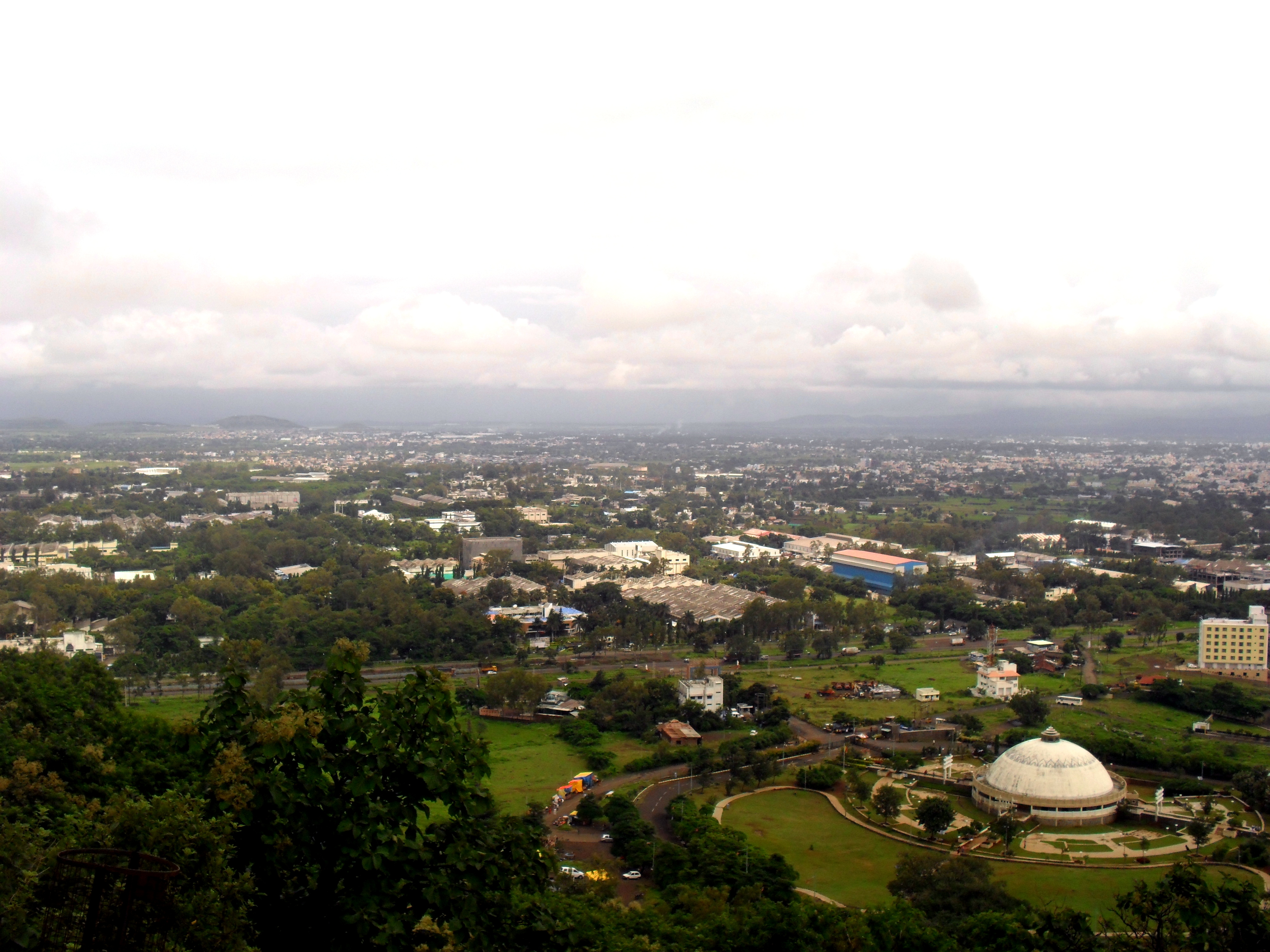 The city has grown rapidly in the last five years encompassing all the villages around it.